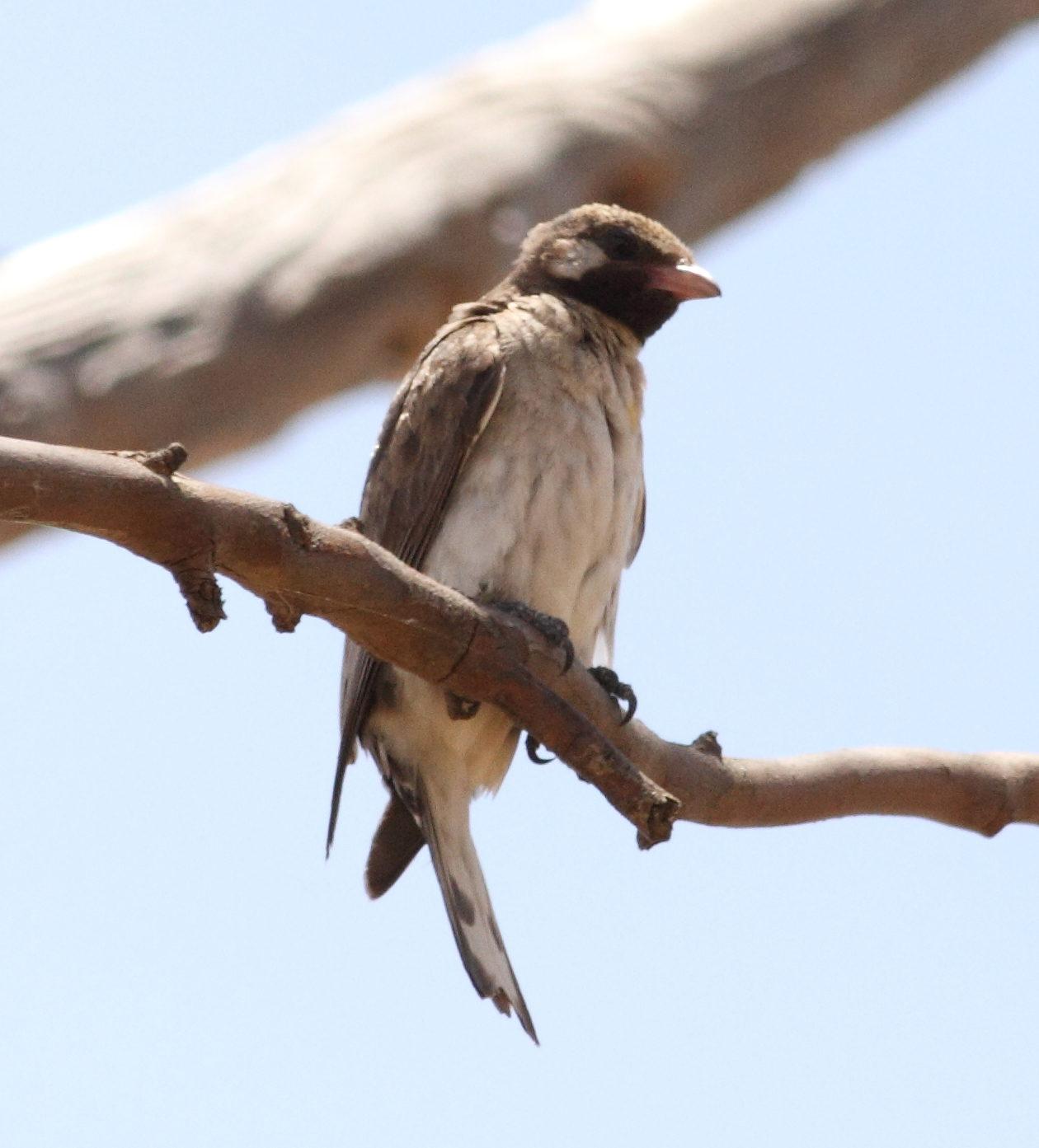 Greater Honeyguide